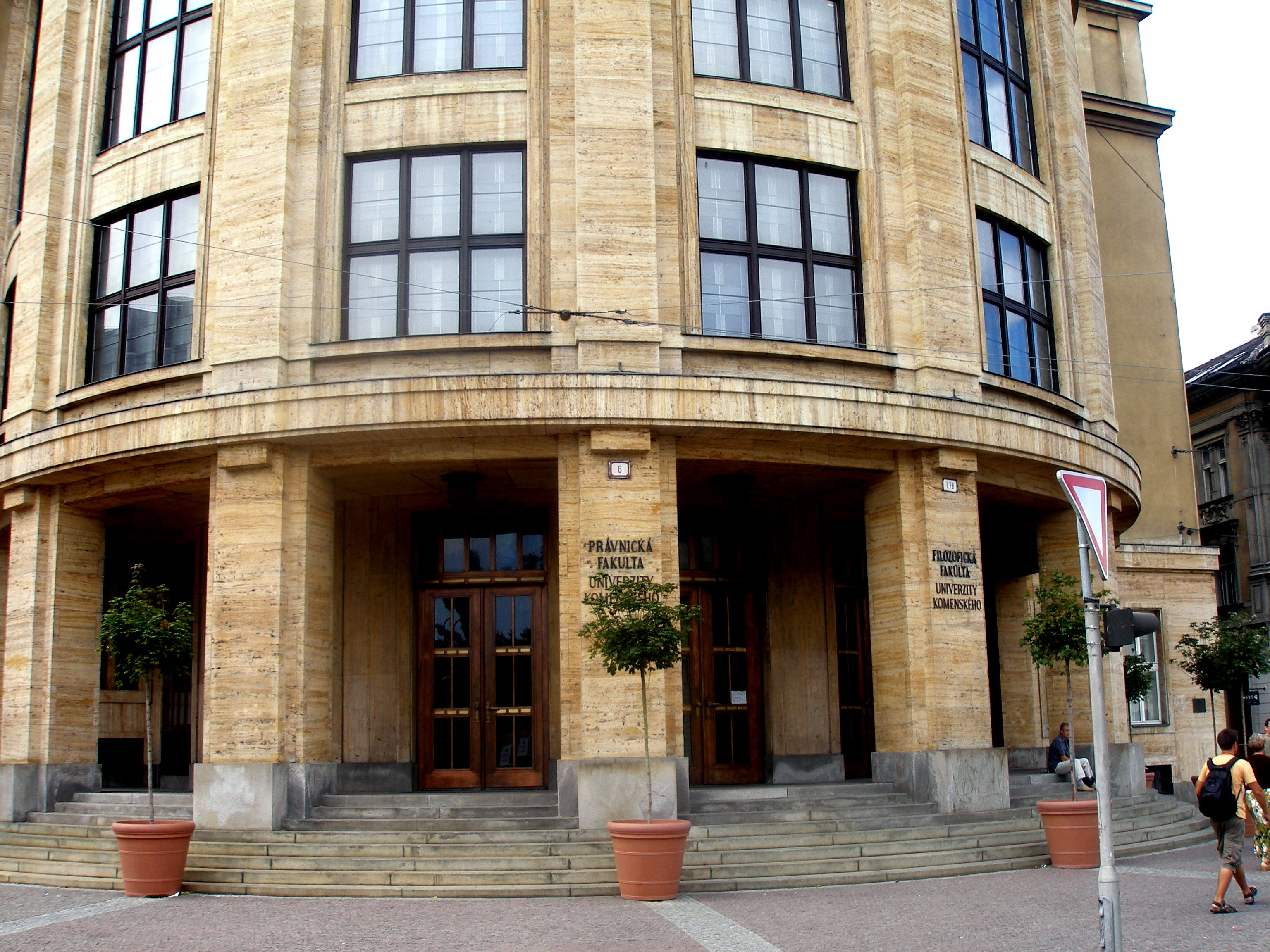 Comenius University